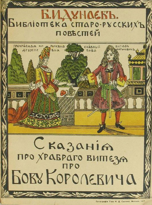 Tales of the valiant knight Bova Korolevich. Russian lubok book cover. (Image slightly altered and improved via Photoshop)